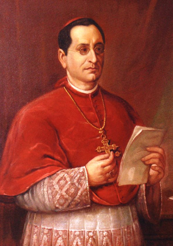 Dom Friar José Sebastião Neto, OFM (1841-1920), Cardinal-Patriarch of Lisbon from 1883 up to his resignation in 1907.